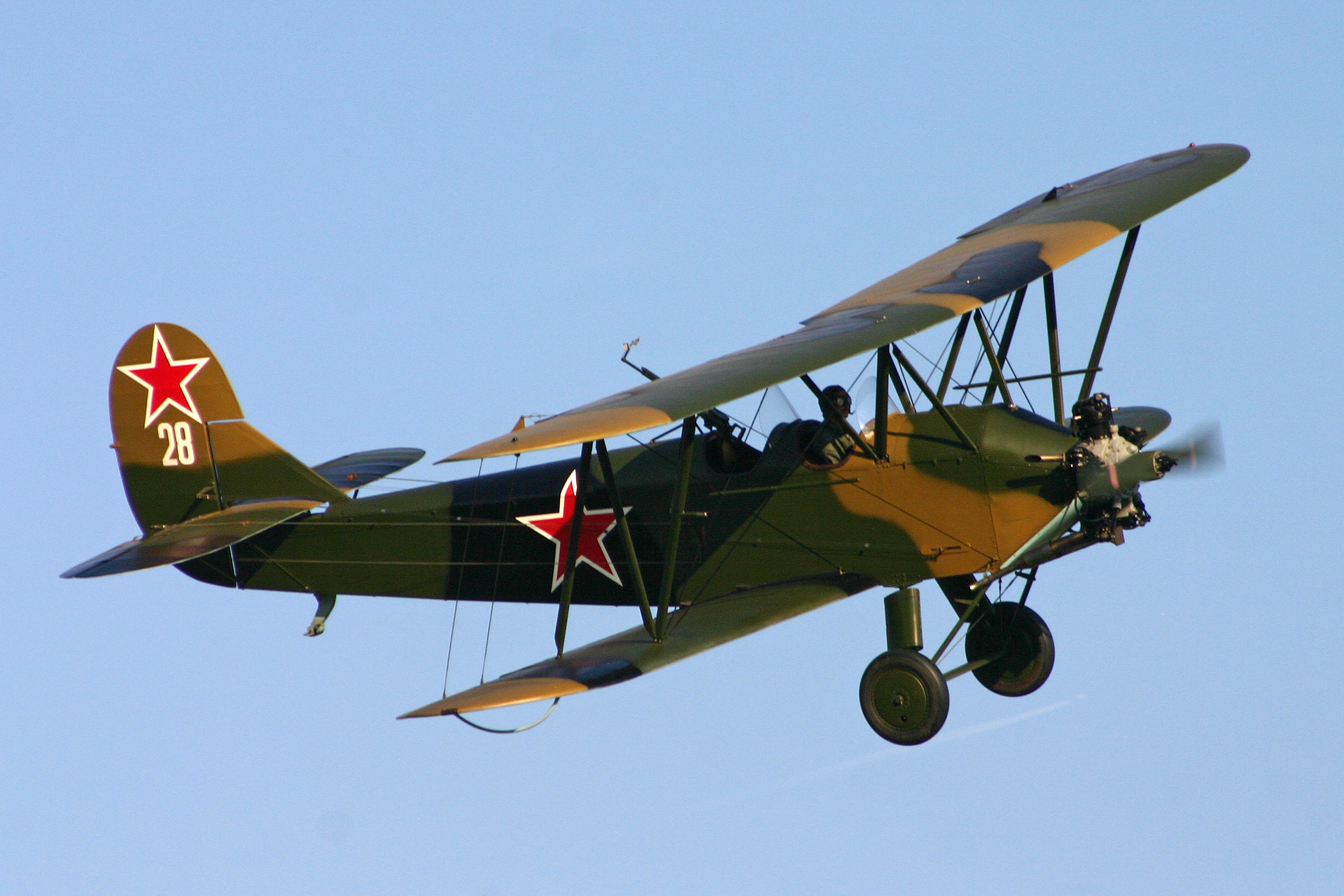 Actually a Polish built CSS-13, msn 0094. Displaying at Old Warden. 02-10-2011